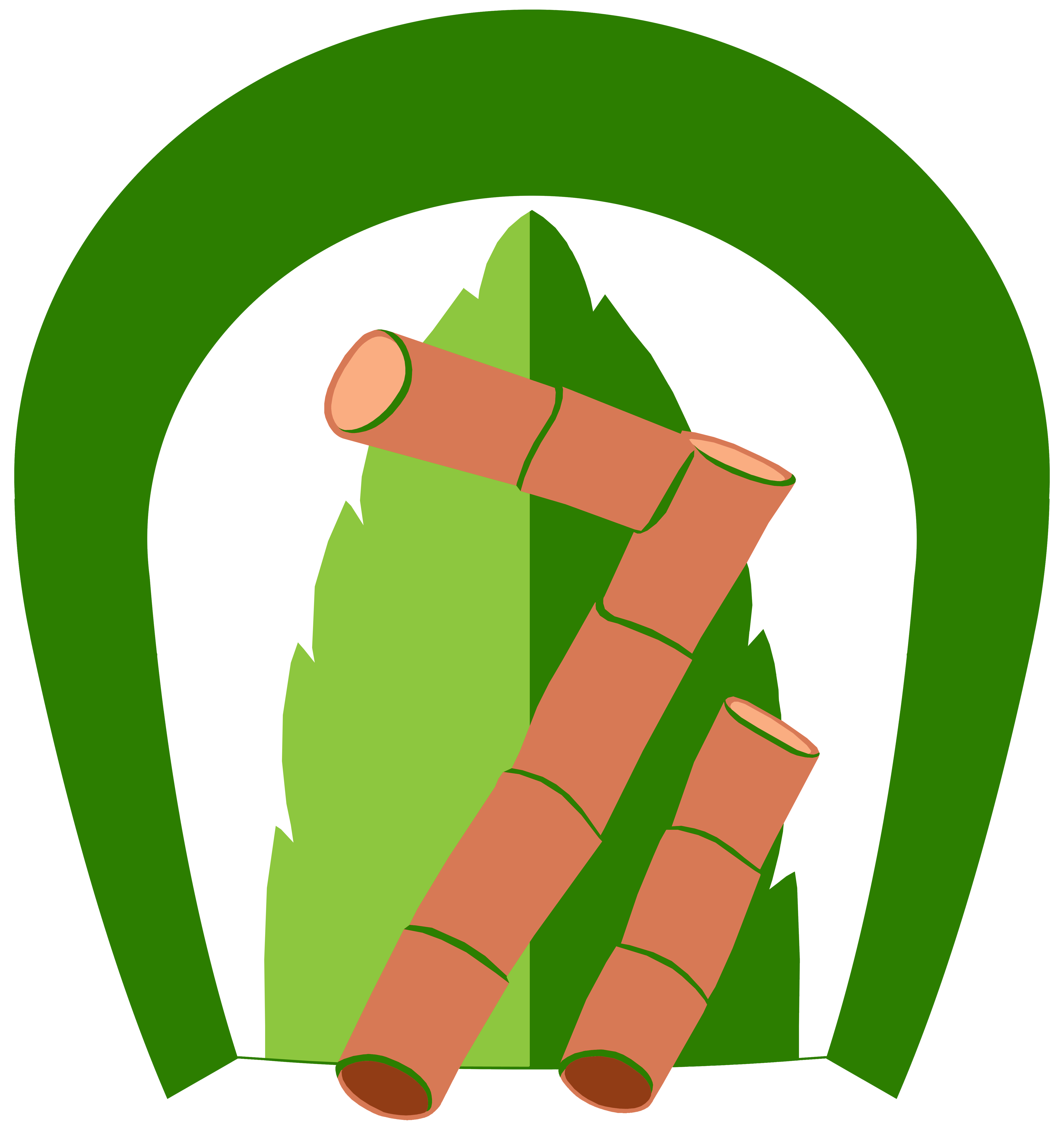 71st Philippine Division emblem from 1941-42 (version 1), possibly not developed until late in that period or just after; color versions of this are a matter of record, and bronze version(s) of these emblems are seen on monuments around the Philippines.